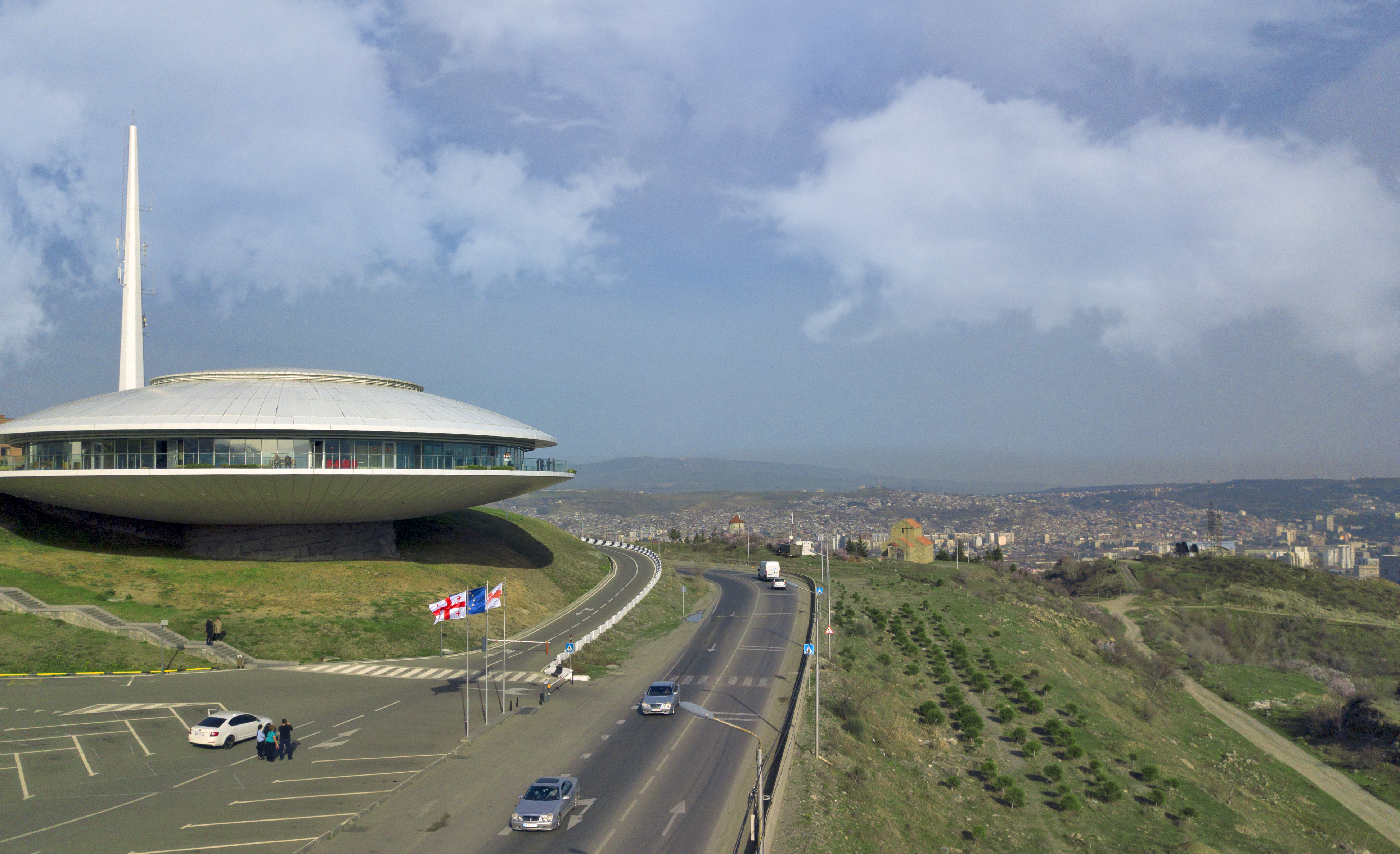 Emergency and Operative Response Center 112 Georgia's building in Tbilisi, Georgia